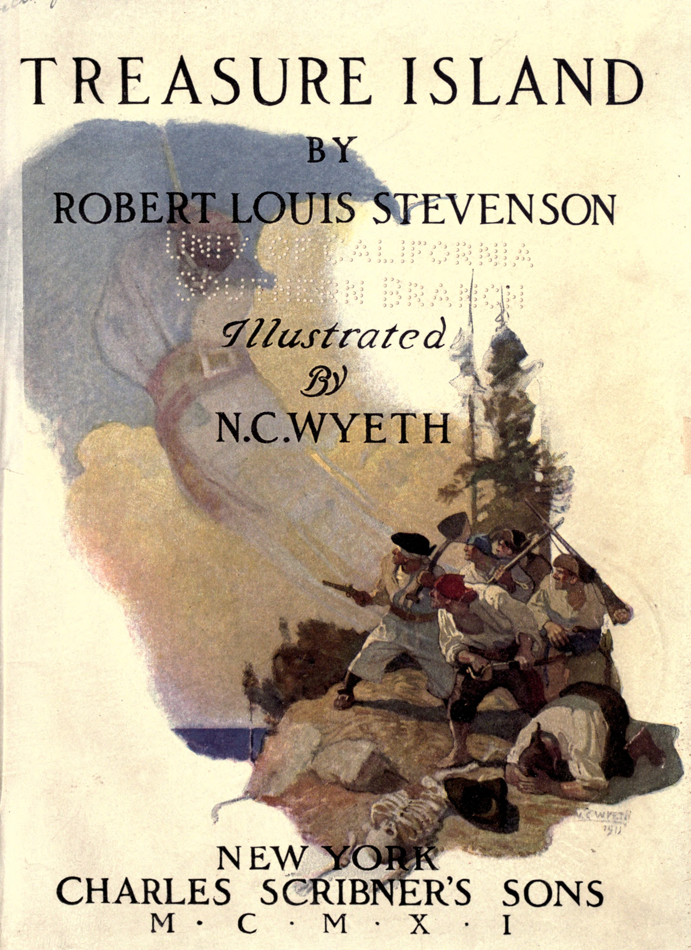 Title page, Treasure Island by Robert Louis Stevenson, illustrated by N. C. Wyeth, Charles Scribner's Sons, 1911